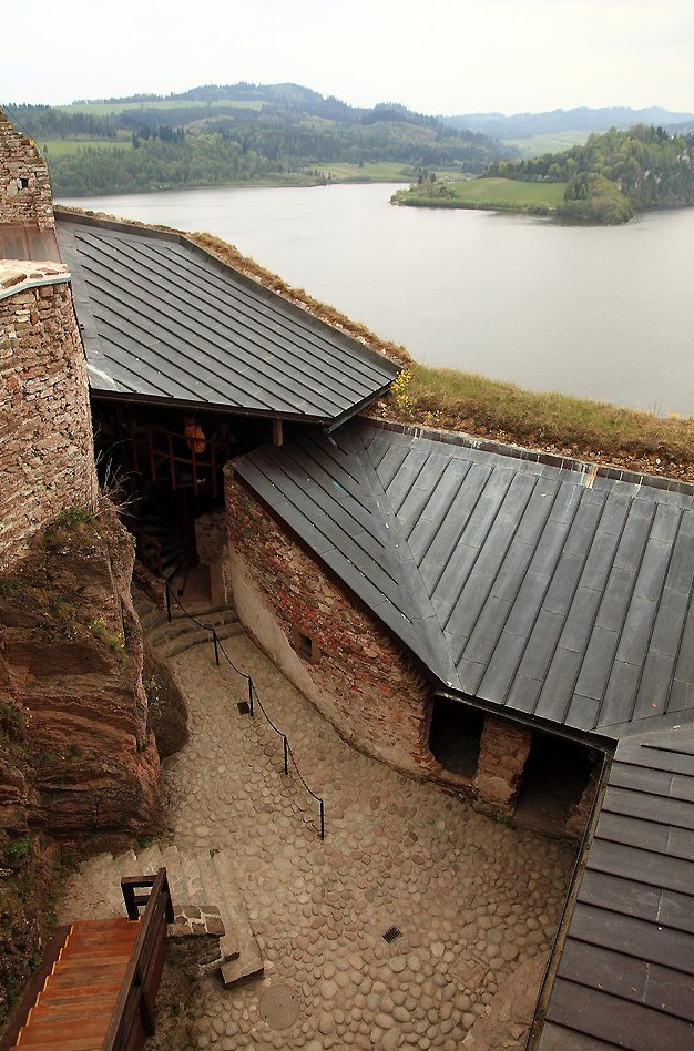 Czorsztyn Castle